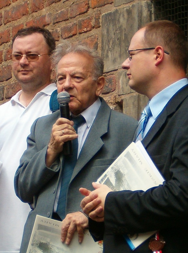 Andrzej Januszajtis (center), Polish physicist and expert in history of Gdansk. Paweł Adamowicz - right.